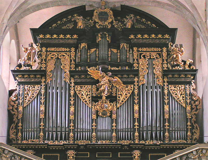 Kaisheim Abbey, Bavaria, Germany.